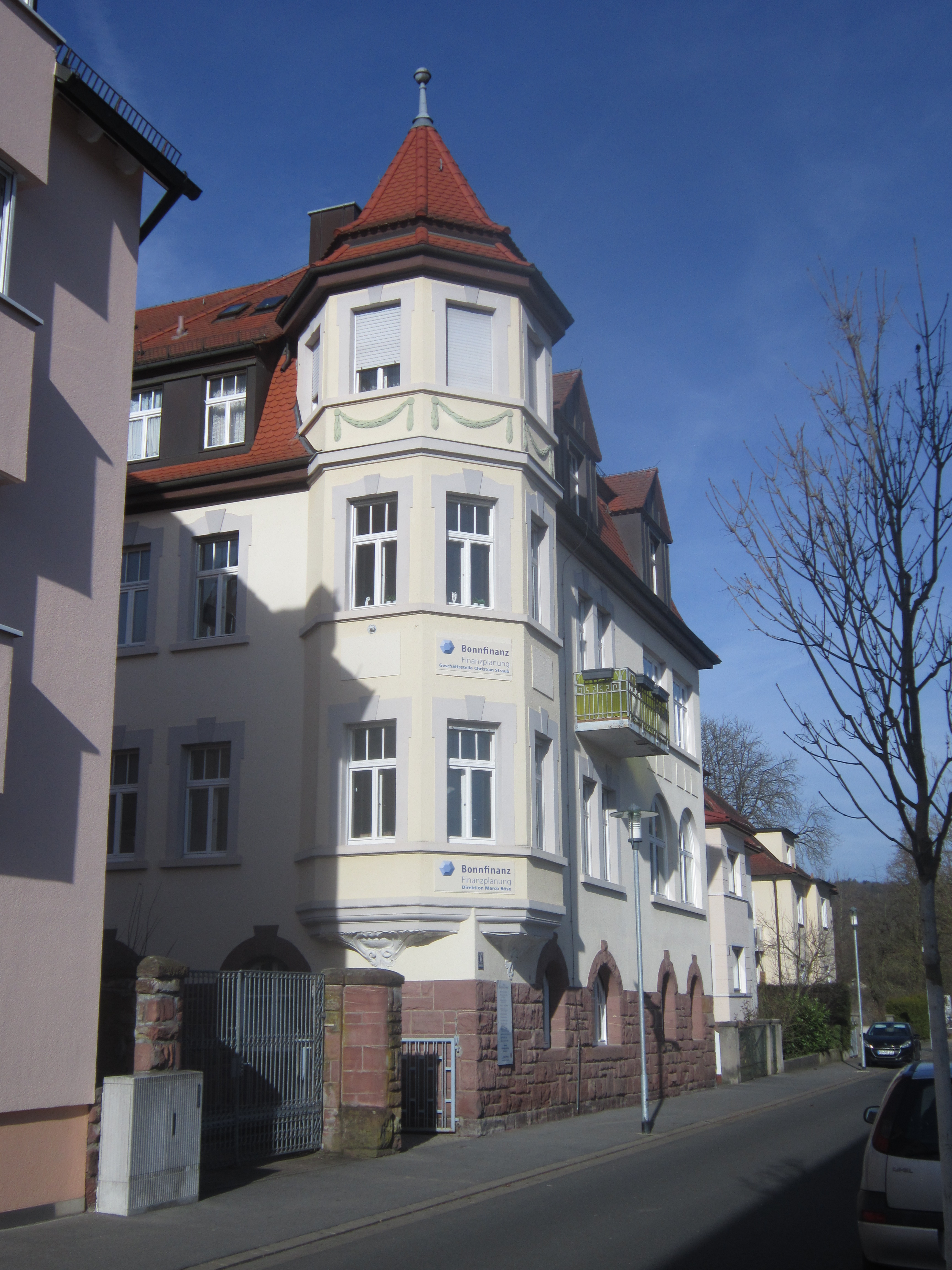 Building in the German spa town of Bad Kissingen in Lower Franconia (Bavaria) (Address: Promenadestraße 17).